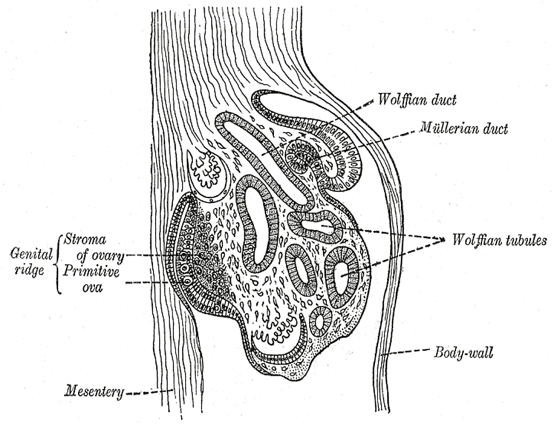 Section of the urogenital fold of a chick embryo of the fourth day. (Waldeyer.). This fold in the mesonephros, however, shouldn't be confused with the present day meaning of urogenital fold